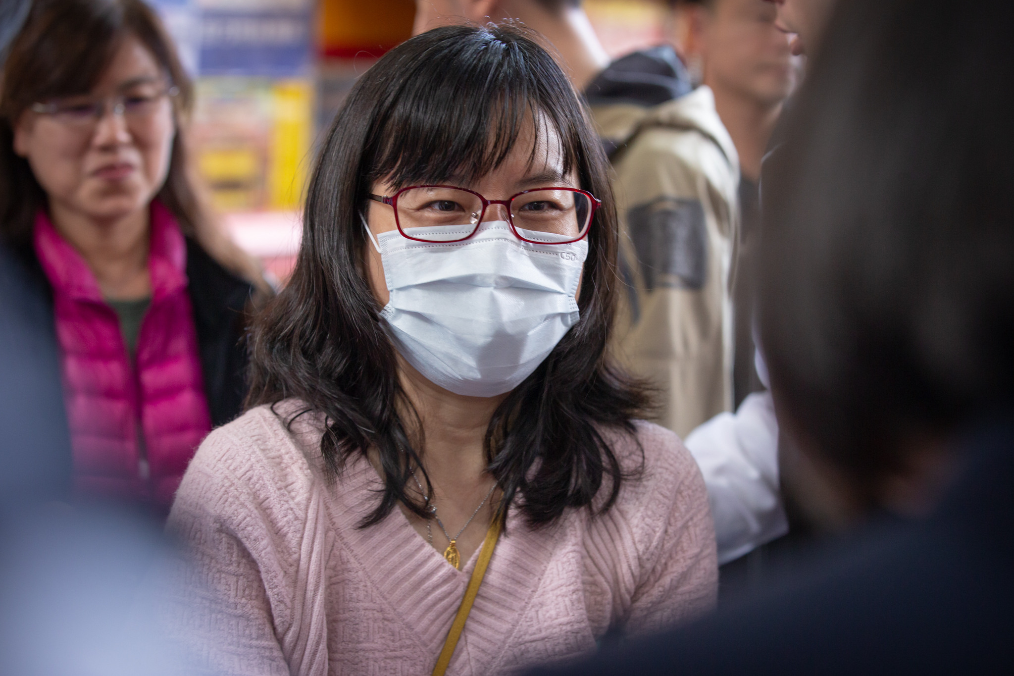 Official Photo by Mori / Office of the President